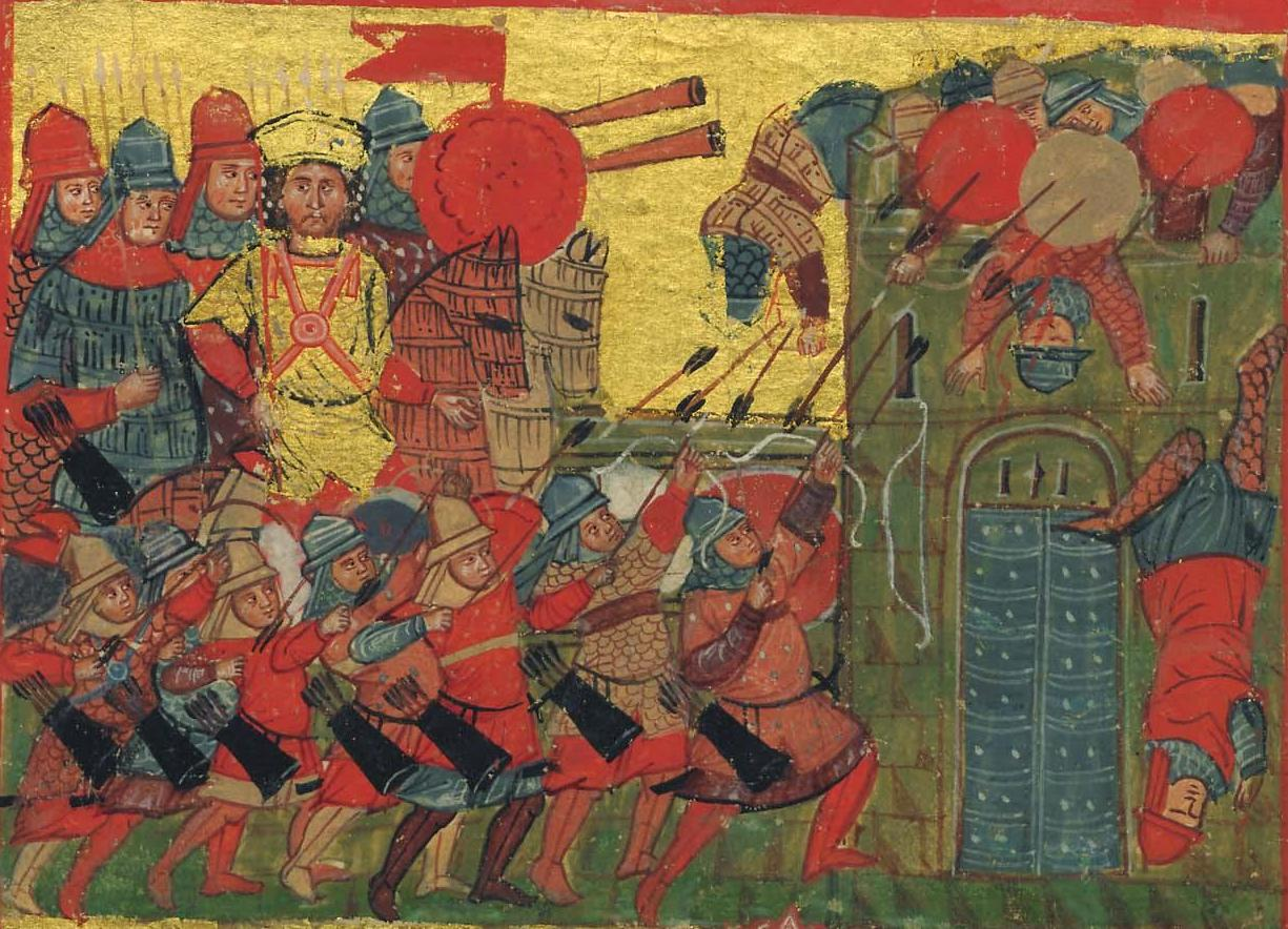 A cropped fourteenth-century miniature Greek manuscript depicting scenes from the life of Alexander the Great. In this illustration the infantry of Alexander the Great invades Athens. The battle is taking place and the soldiers of the enemy fall off the wall. The horses of Alexander and one of his adjutants are represented as a Cataphract (Armored cavalry). The entire scene is depicted entirely in Byzantine fashion of the late Byzantine period (1204-1453). “Alexander Romance” in S. Giorgio dei Greci in Venice